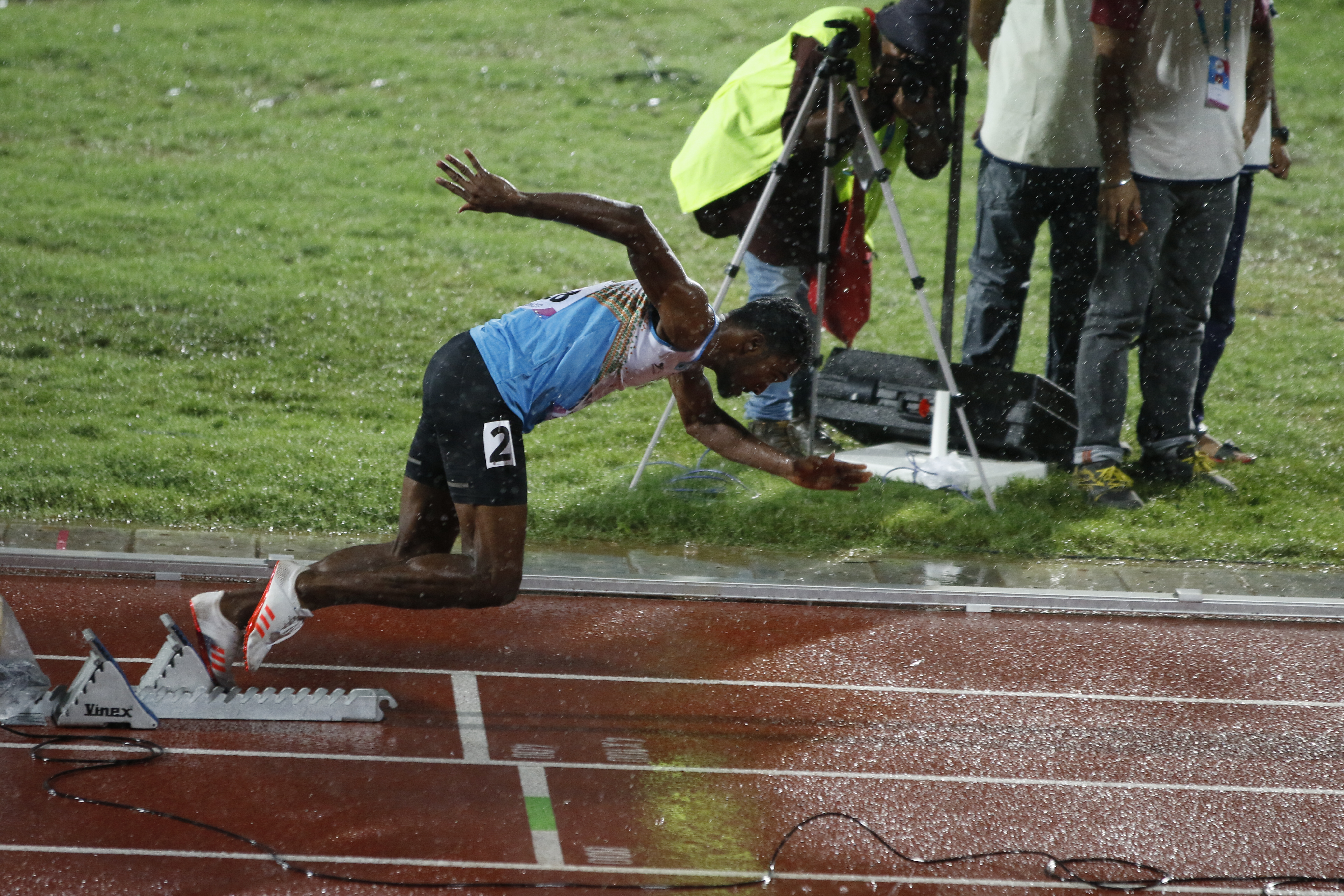 Athletes during 22nd Asian Athletics Championships in Bhubaneswar.